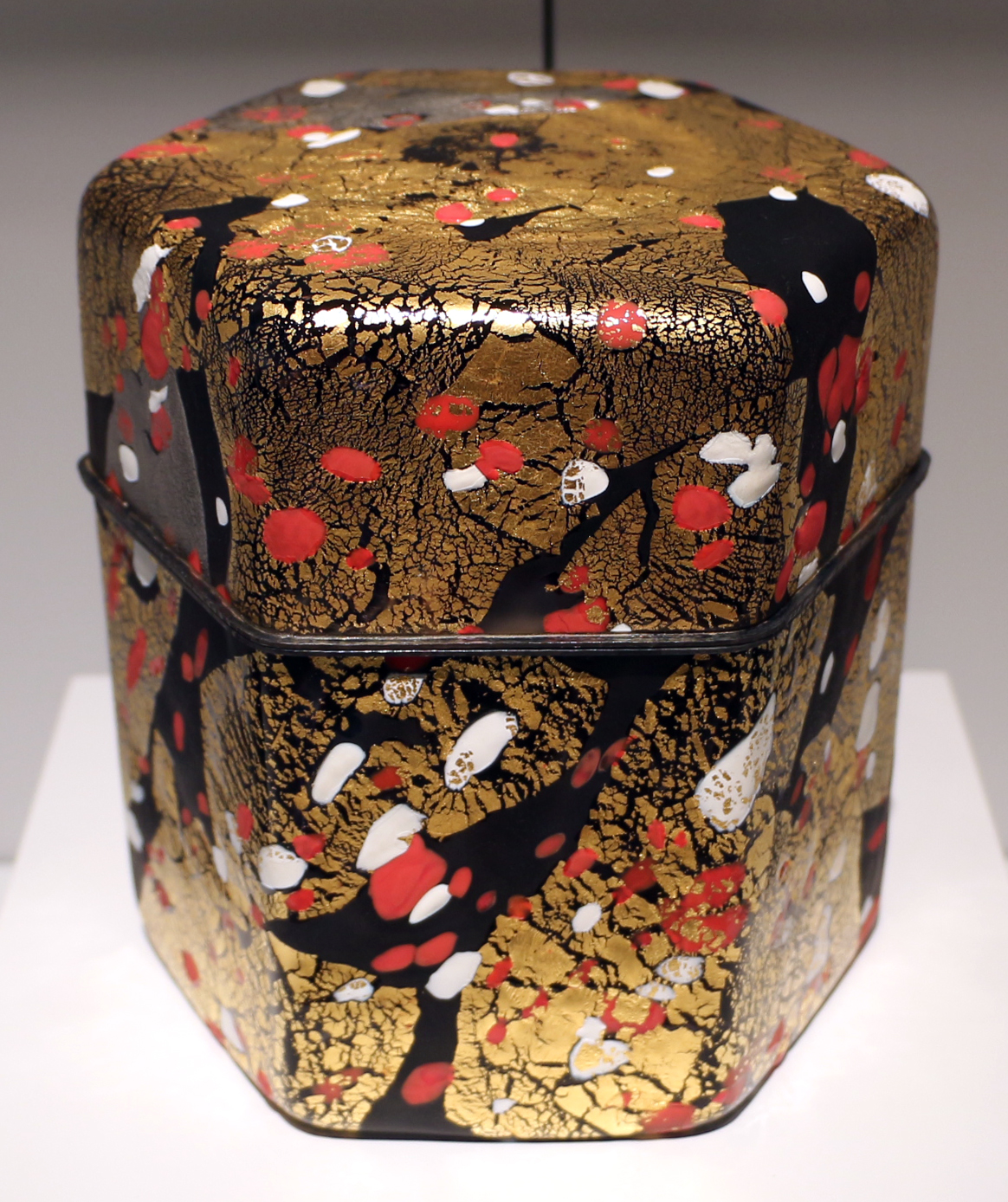 Glassware in the Indianapolis Museum of Art